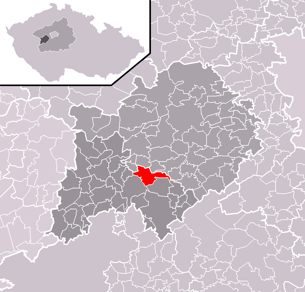 Location of Libomyšl municipality within Beroun District and administrative area of Hořovice as a Municipality with Extended Competence.